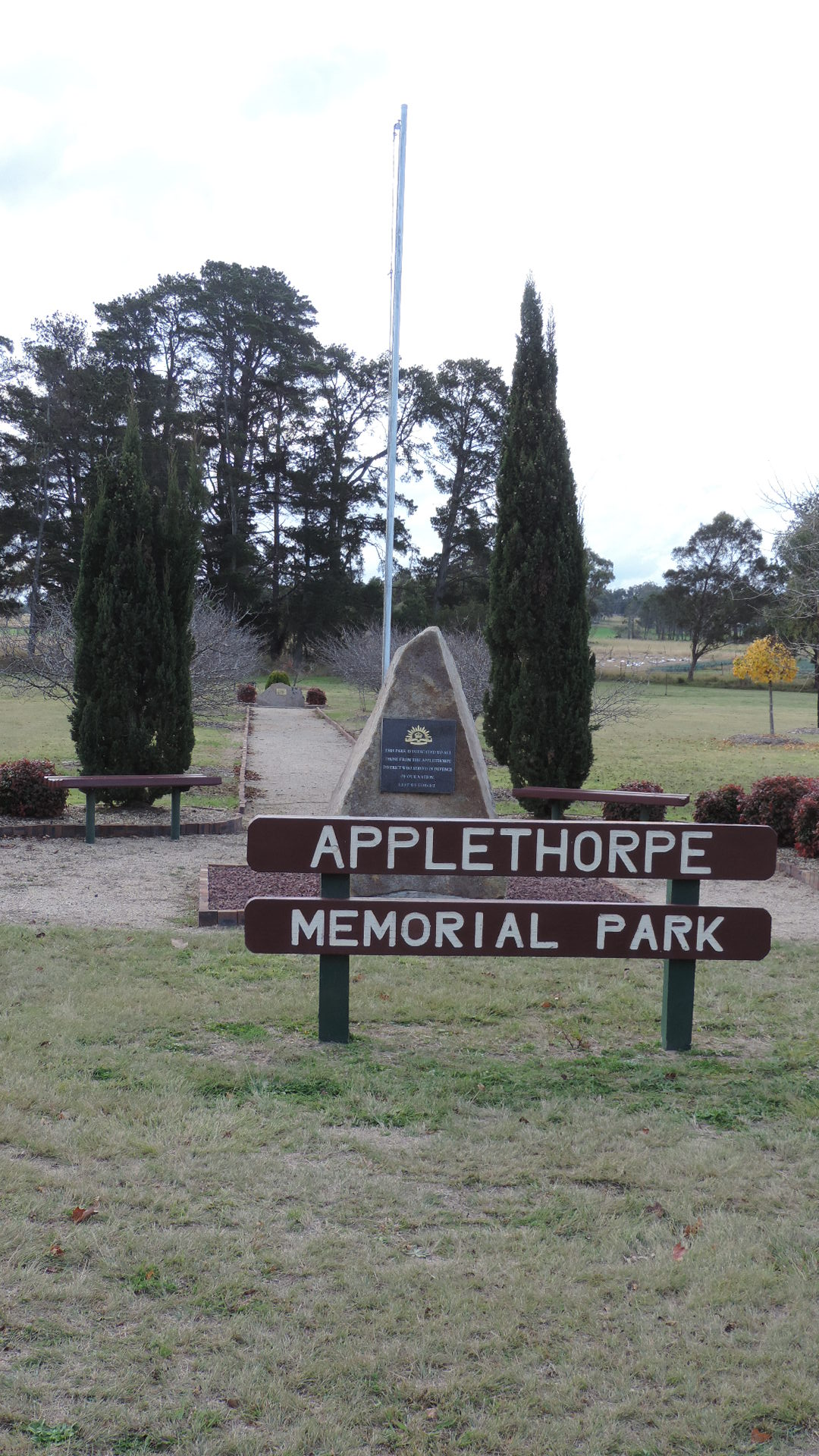 Applethorpe Memorial Park, 2015